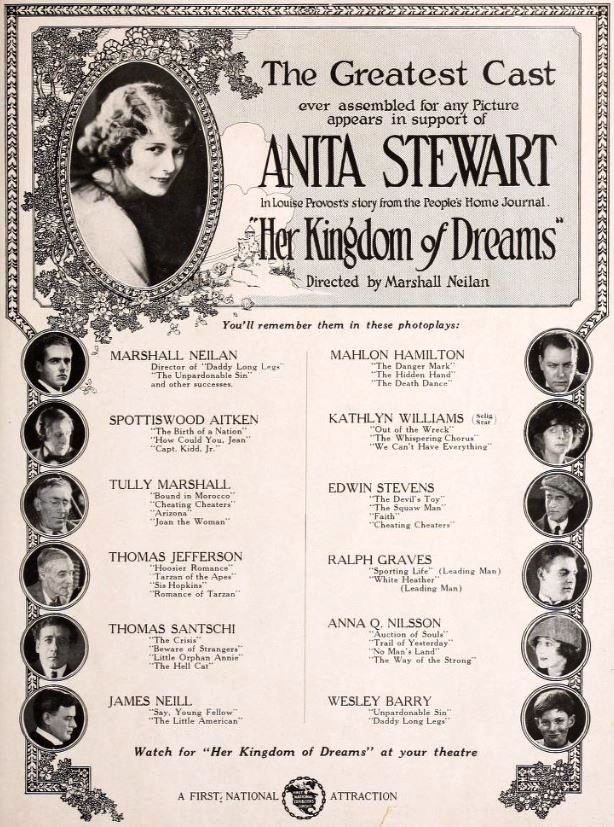 Advertisement for the American drama film Her Kingdom of Dreams (1919) with Anita Stewart, on page 81 of the September Shadowlands. Ad has small pictures of actors Spottiswoode Aitken, Tully Marshall, Thomas Jefferson, Tom (Thomas) Santschi, Mahlon Hamilton, Kathlyn Williams, Edwin Stevens, Ralph Graves, Anna Q. Nilsson, and Wesley Barry.